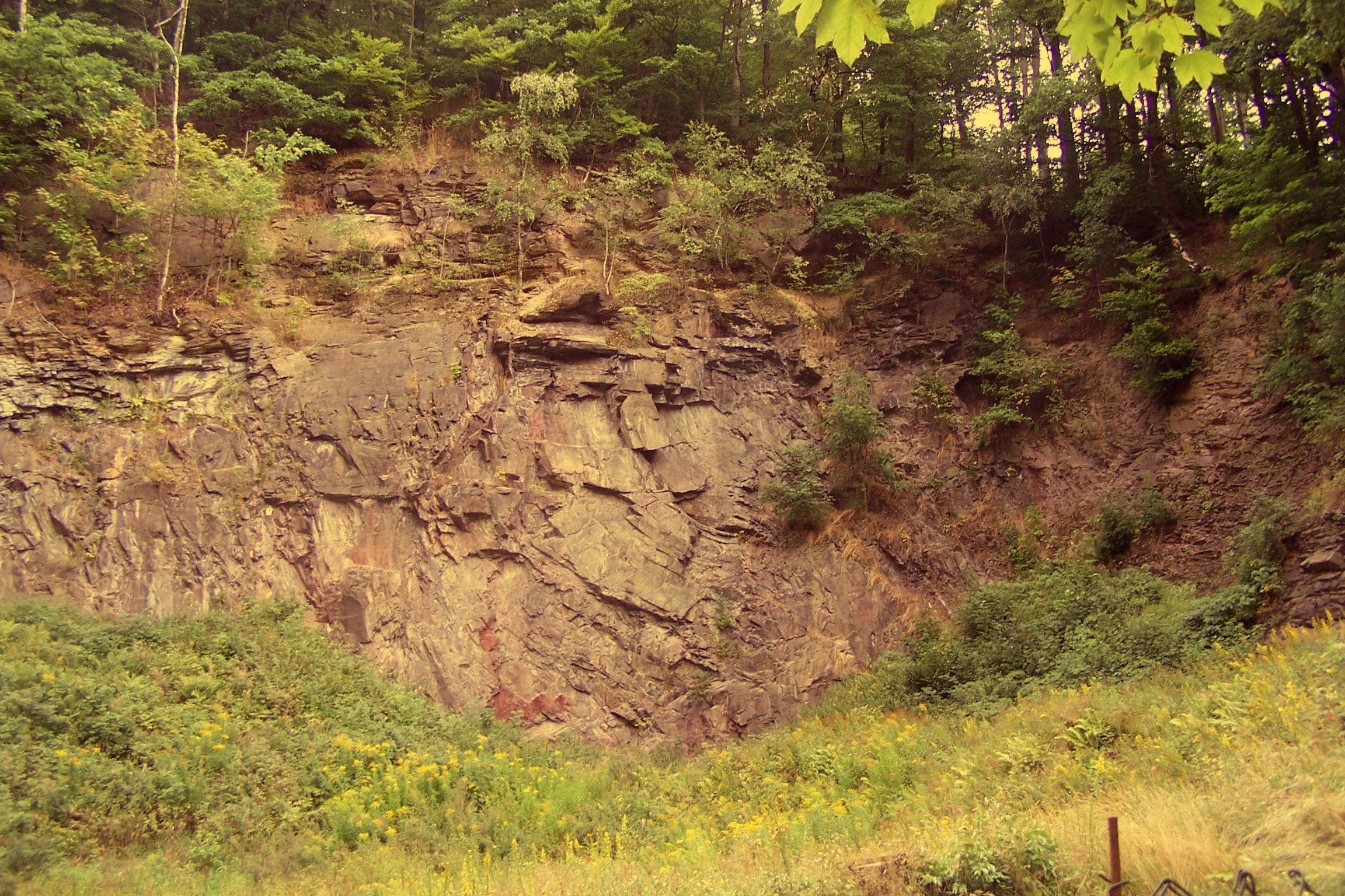 Abandoned quarry at the former train station of Ruhla, Thuringian Forest. Outcrop of amphibolite and mica schist of the Ruhla Group of the Ruhla Crystalline Complex - natural monument since 1977.